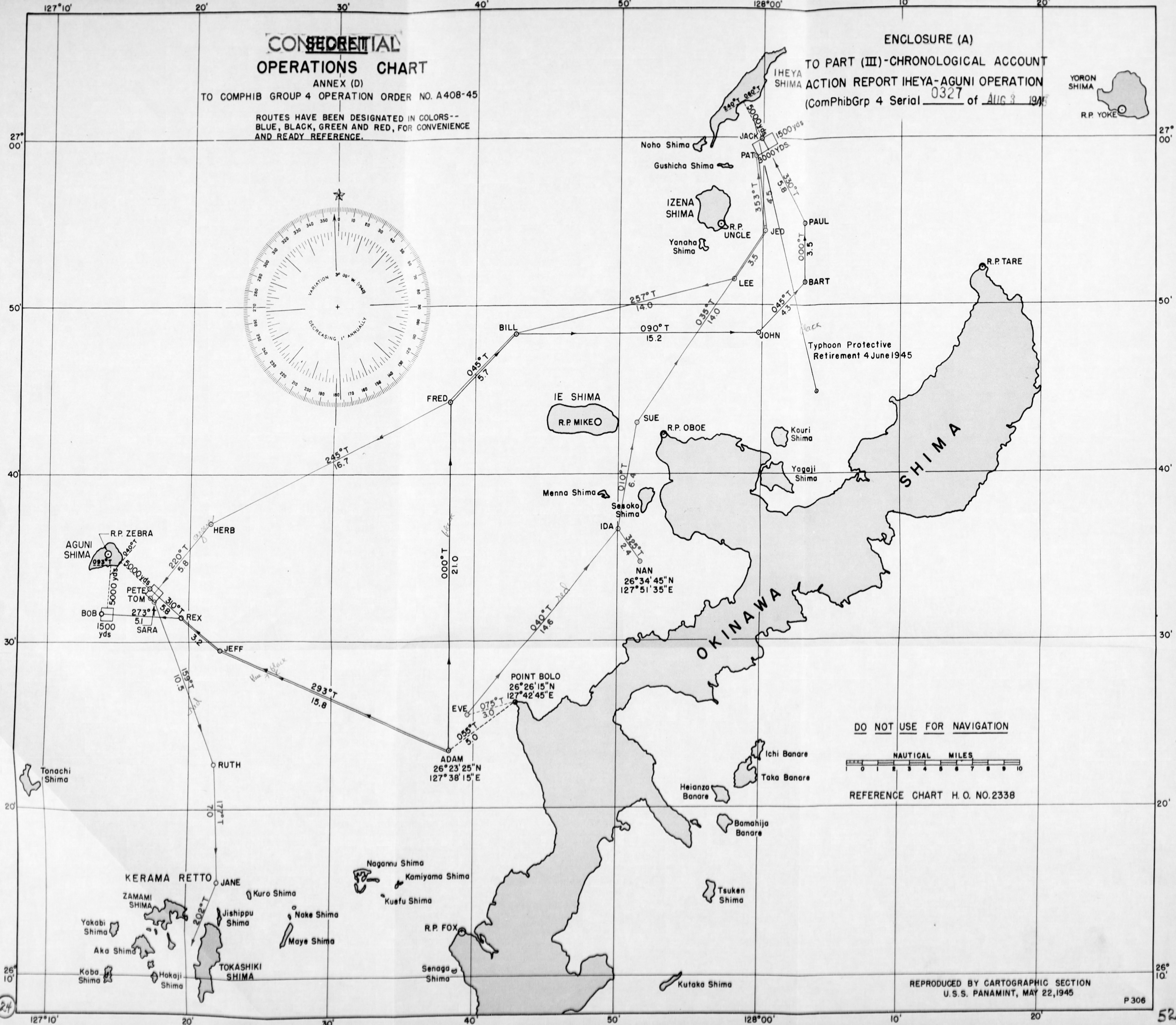 Operations chart showing Iheya and Aguni landing operations at Okinawa, June 1945. Produced by Cartographic Section, USS Panamint (AGC-13)